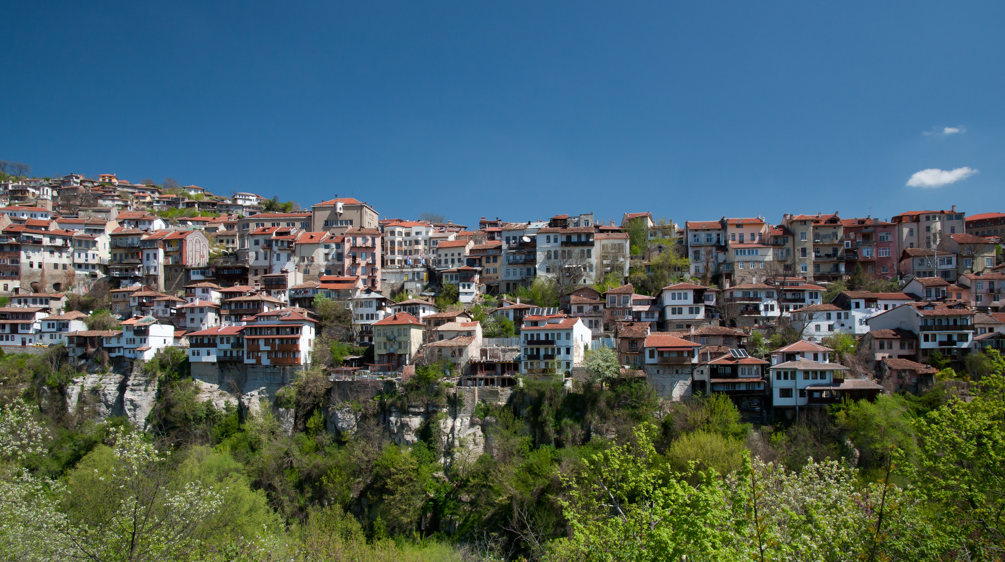 View of the old town of the city of Veliko Tarnovo, Bulgaria.